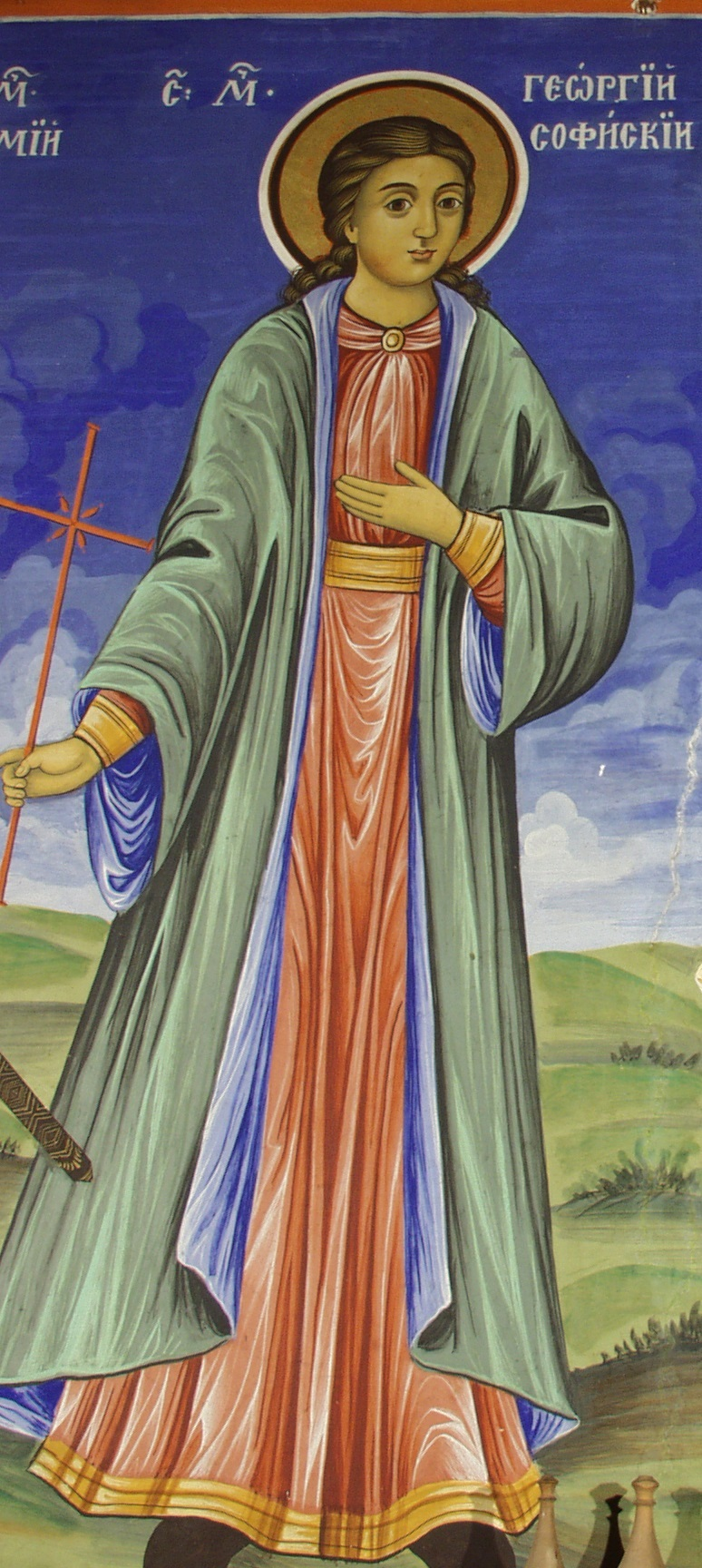 Archangels Chapel in Rila Monastery Frecos.